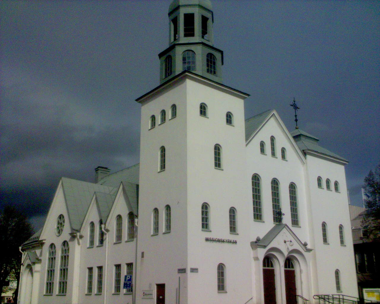 The "Missionskyrkan" in Bollnäs (Swedish Covenant Church)